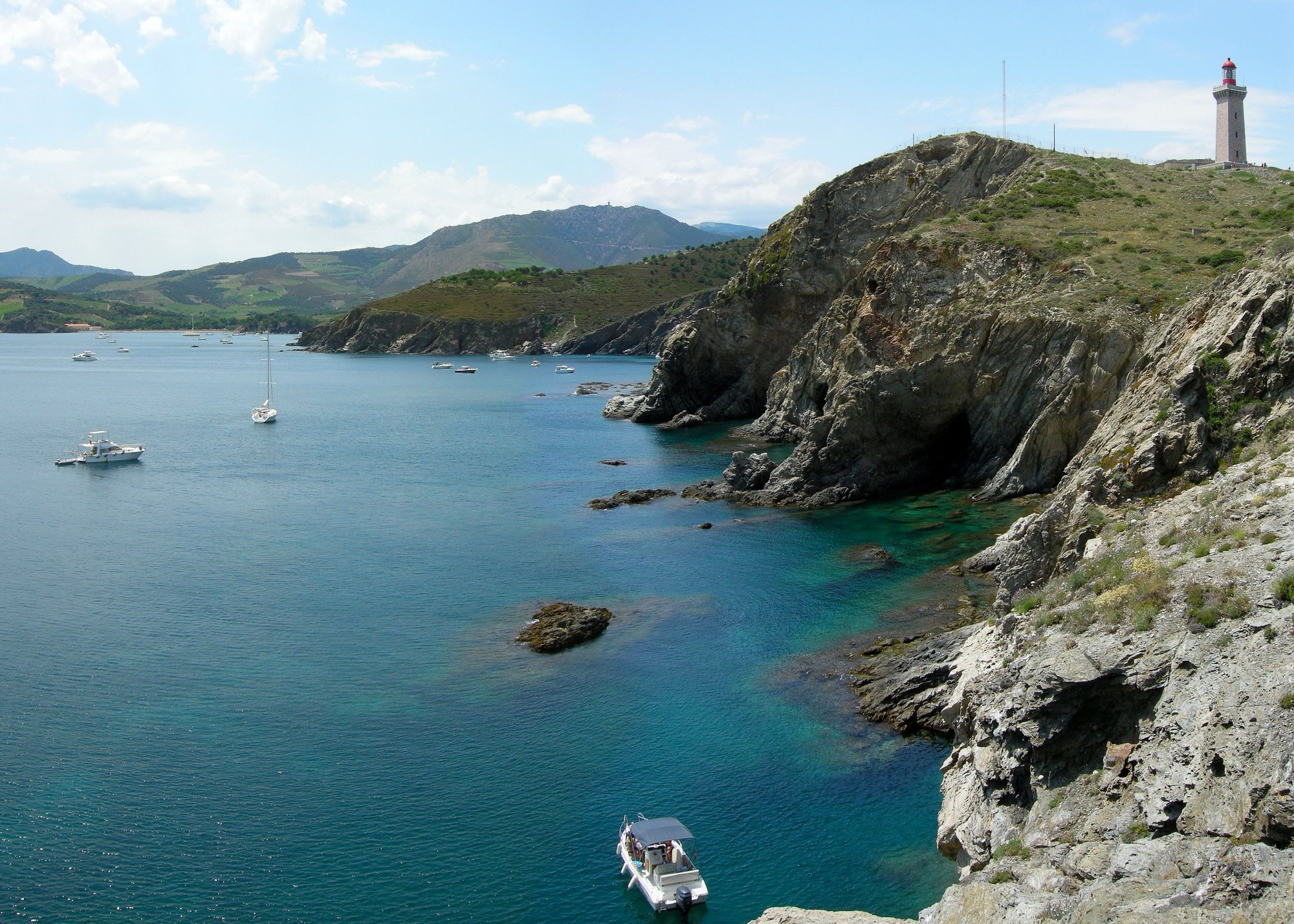 The nature reserve of Cap Béar is located at the Mediterranean coast of the french department Pyrénées-Orientales.